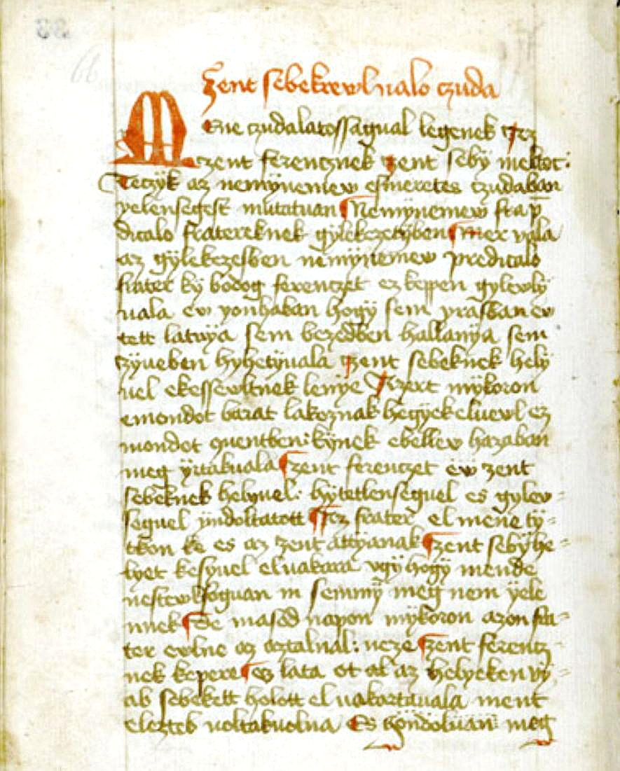 Jókai-Codex, Page 66